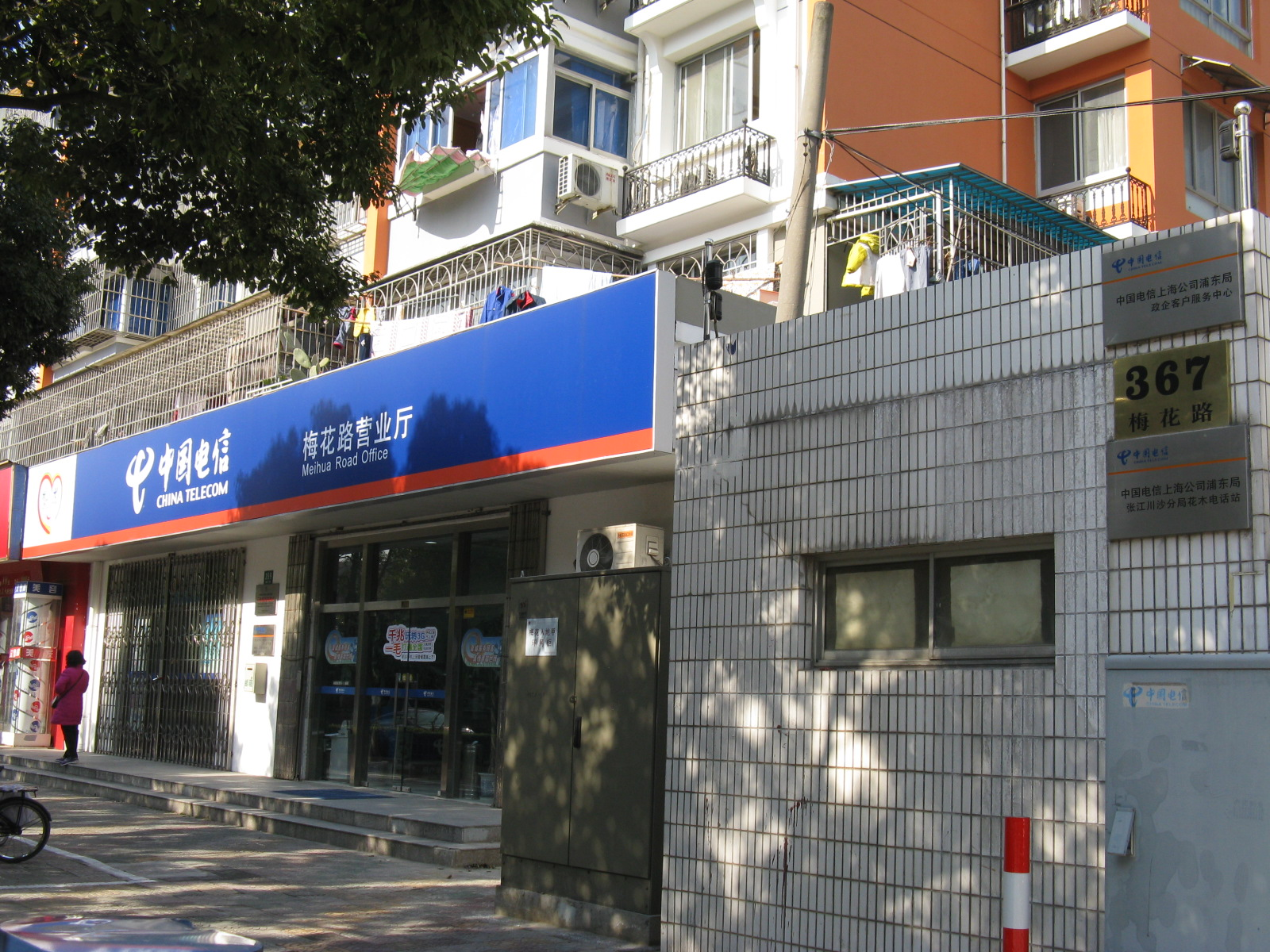 Meihua Road,Shanghai,China